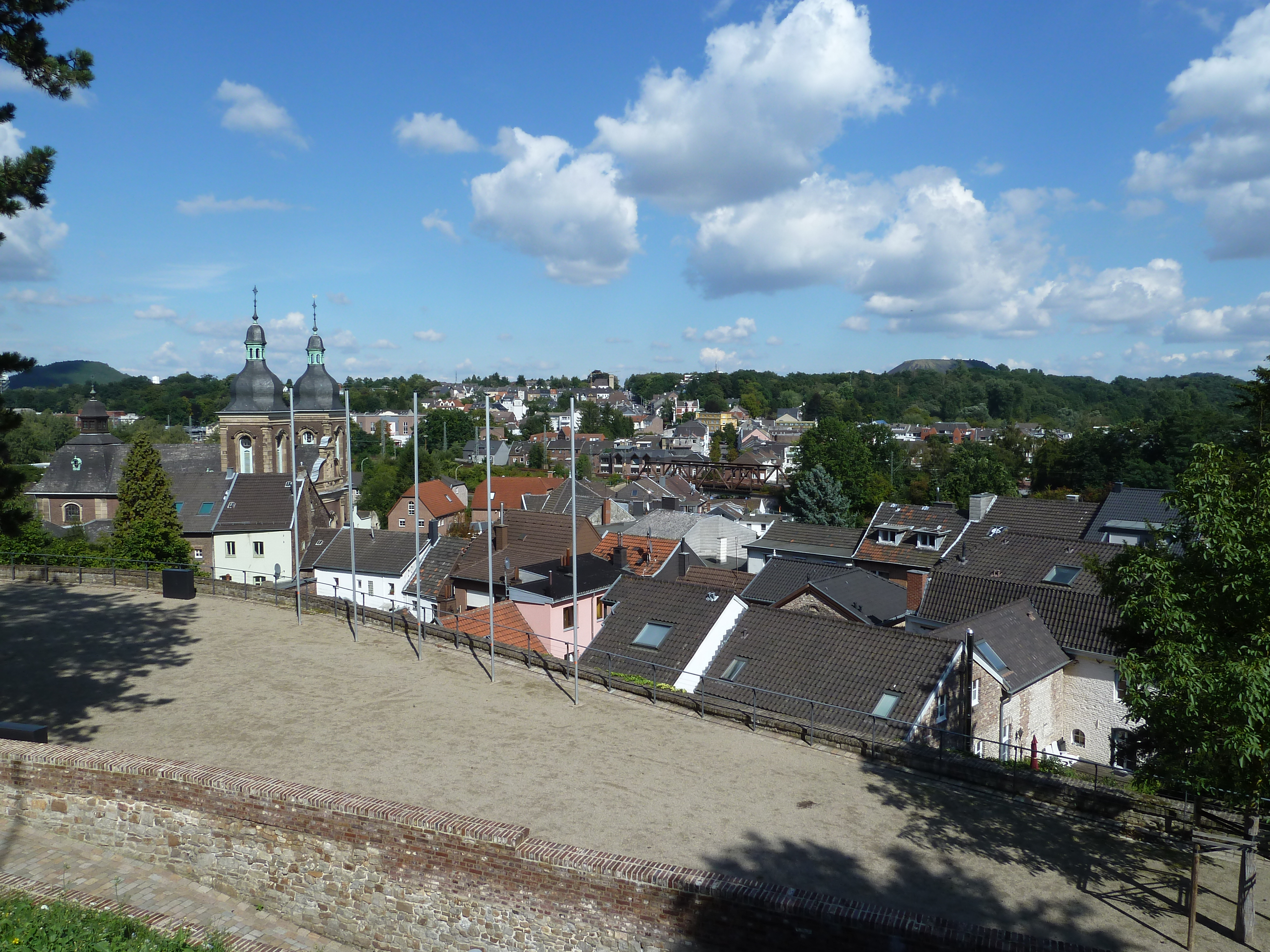 View over Herzogenrath from Burg Rode, Germany